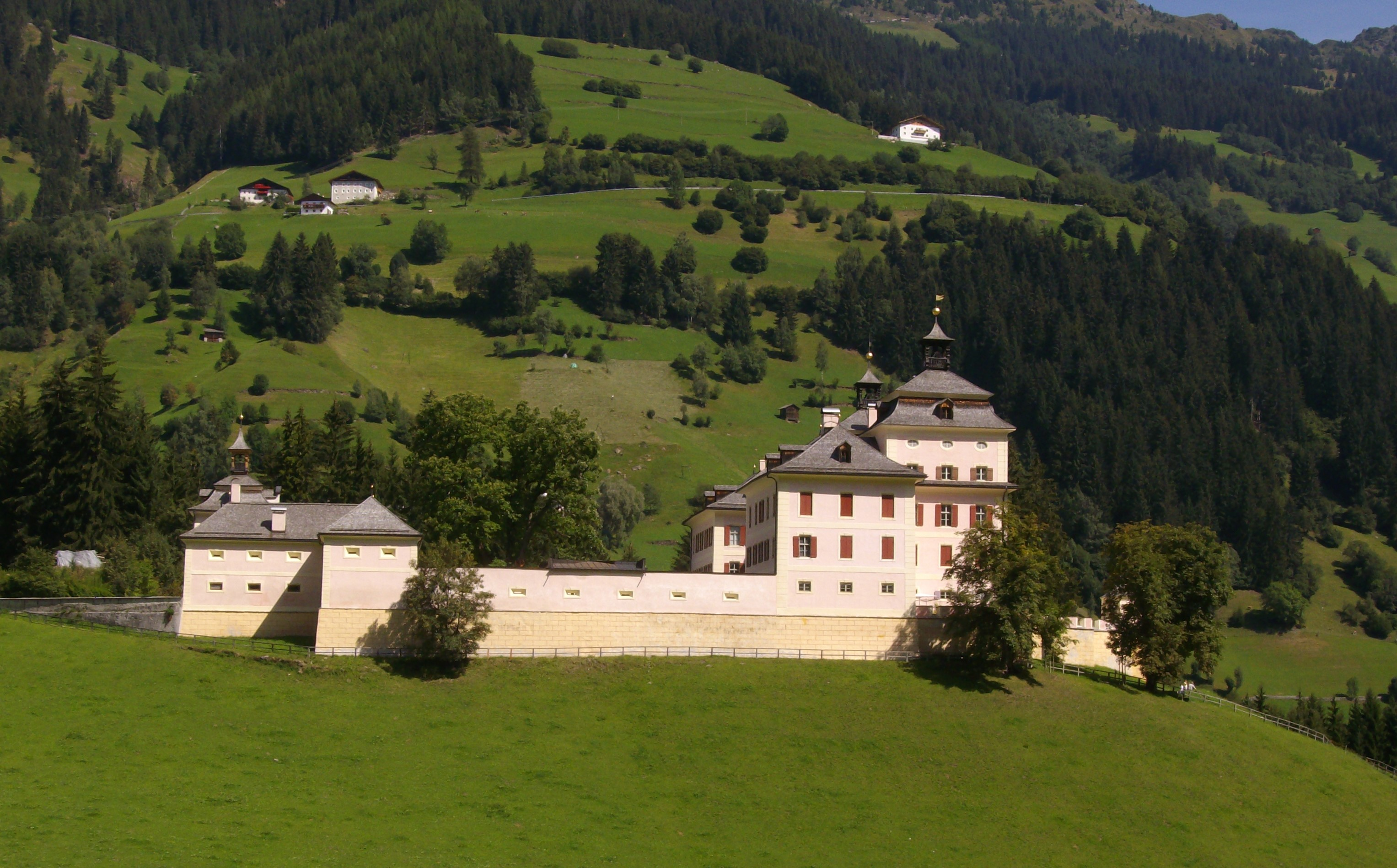 Italy, South Tyrol, Ridnauntal, Schloss Wolfsthurn. It is the only baroque style castle in the region.